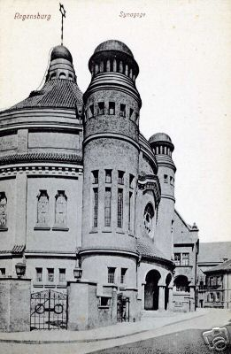 Postcard c.1915 of the Synagogue in Regensburg, Germany. Produced/photographed by Anst #7059, Dresden-Blasewitz.